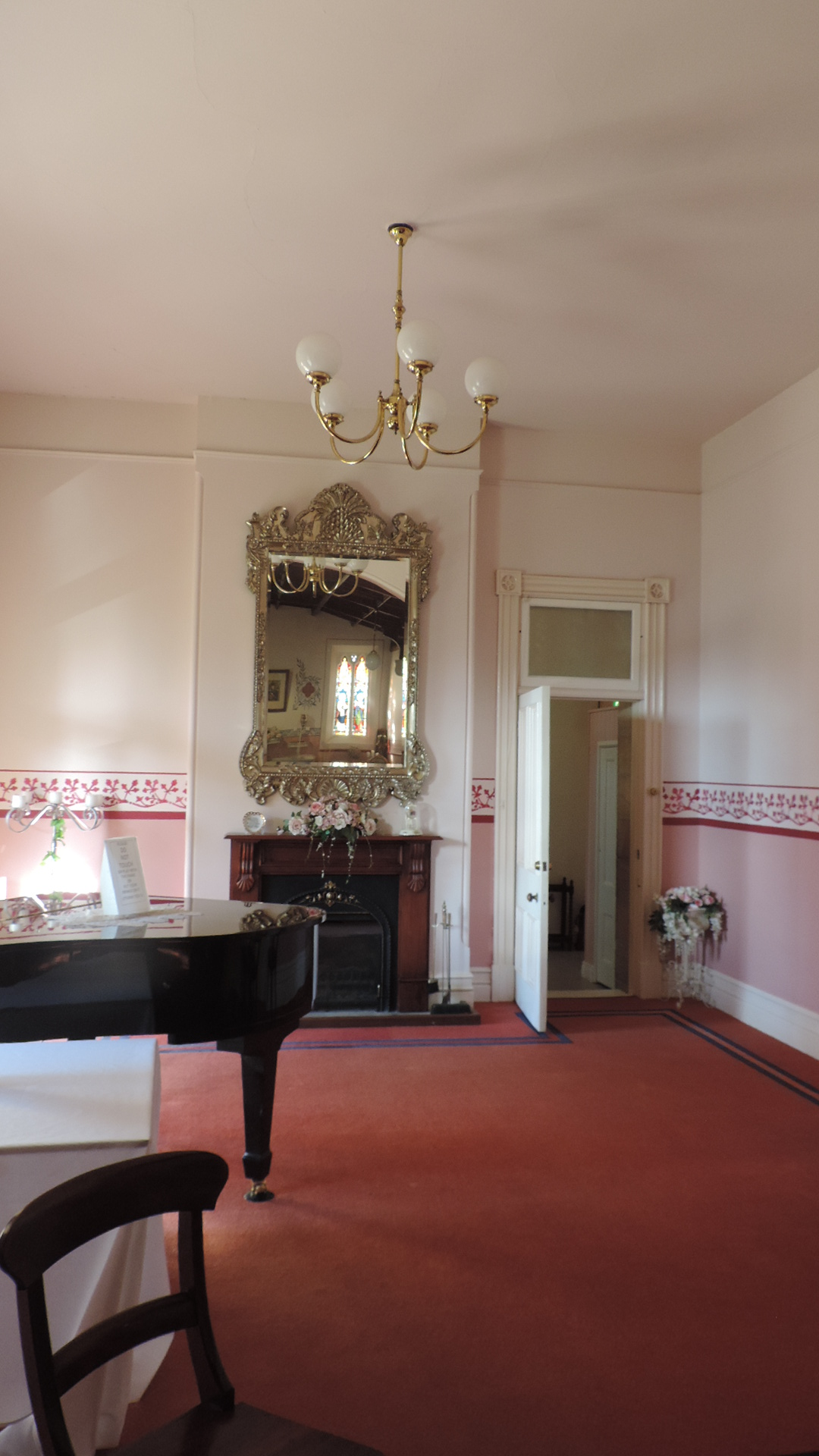 Our Lady of Assumption Convent, Warwick - rear of chapel, 2015